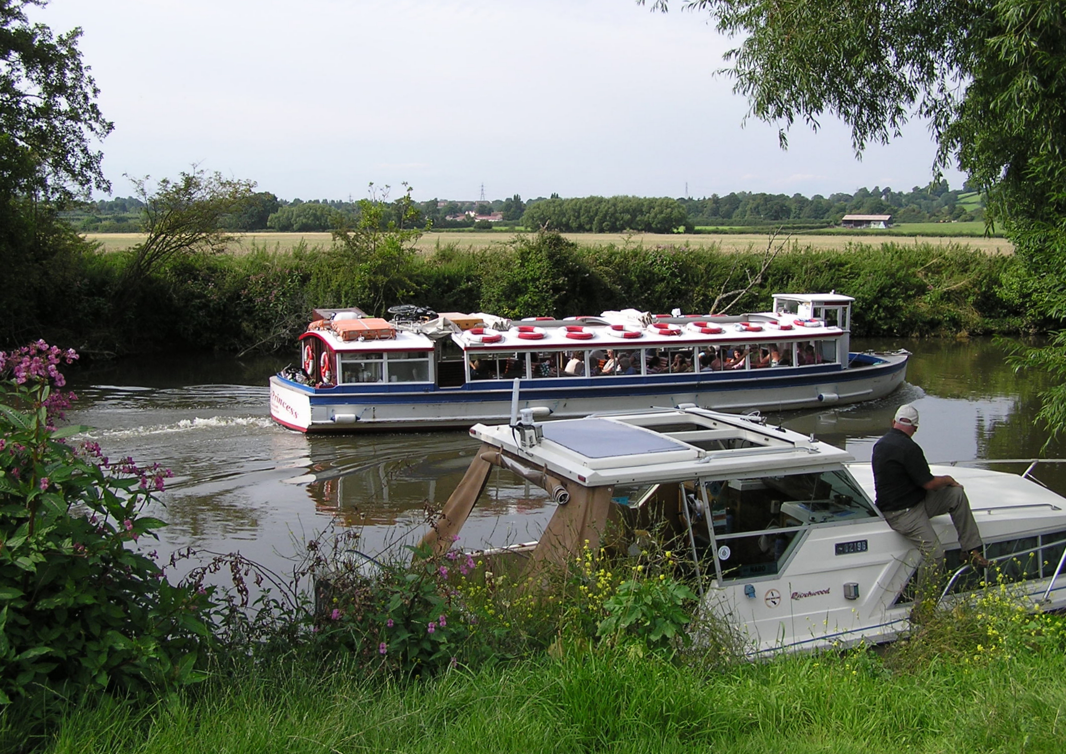 Leisure on the River Avon at Avon Valley Country Park, Keynsham, Bristol, England. A boat giving trips to the public passes a moored private boat.